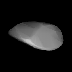 3D convex shape model of 1545 Thernöe, computed using light curve inversion techniques. J. Hanuš, J. Ďurech, M. Brož, B. D. Warner (June 2011). "A study of asteroid pole-latitude distribution based on an extended set of shape models derived by the lightcurve inversion method". Astronomy and Astrophysics 530: A134. ISSN 0004-6361. arXiv